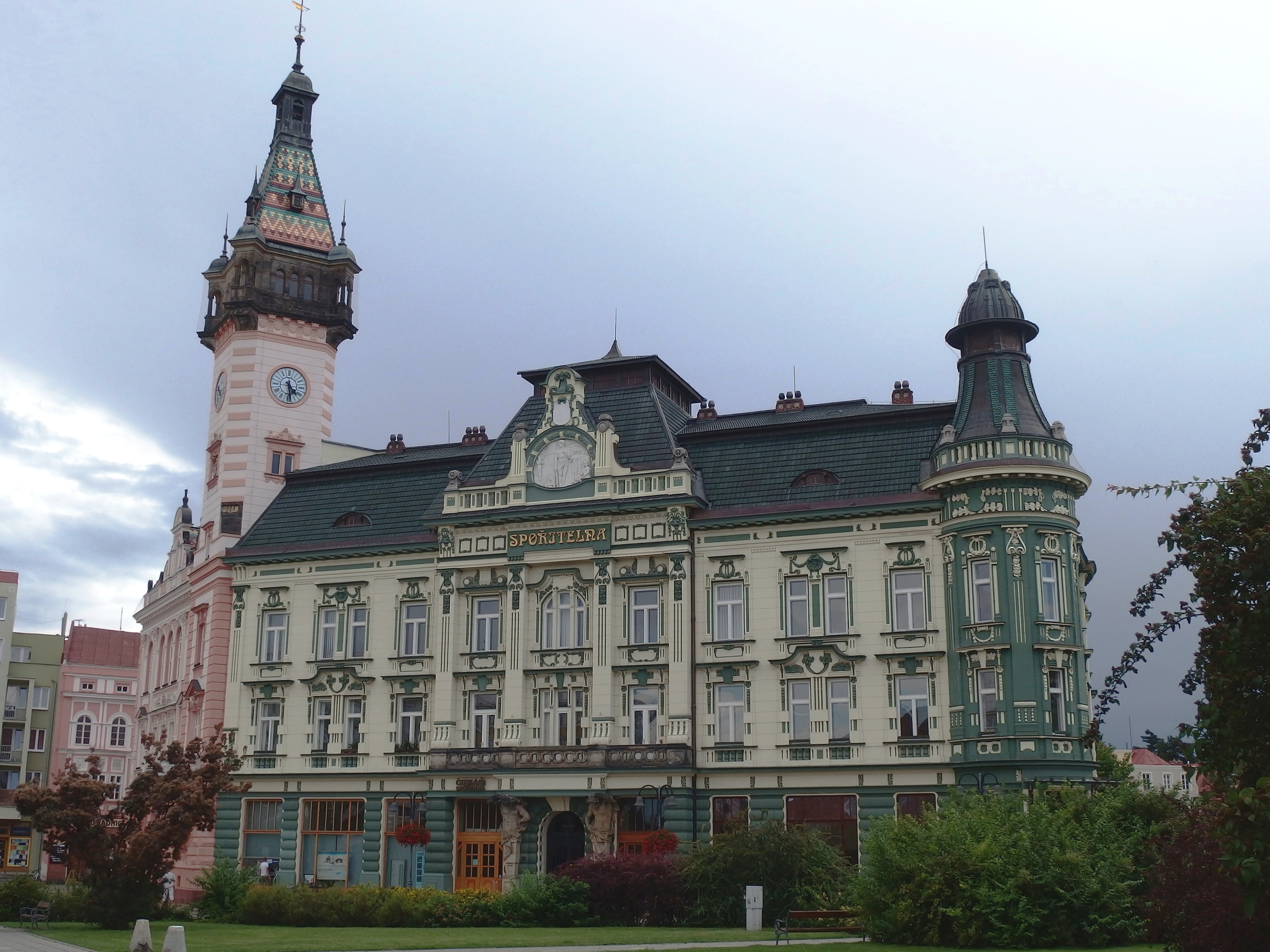 Krnov, Bruntál District, Czech Republic.